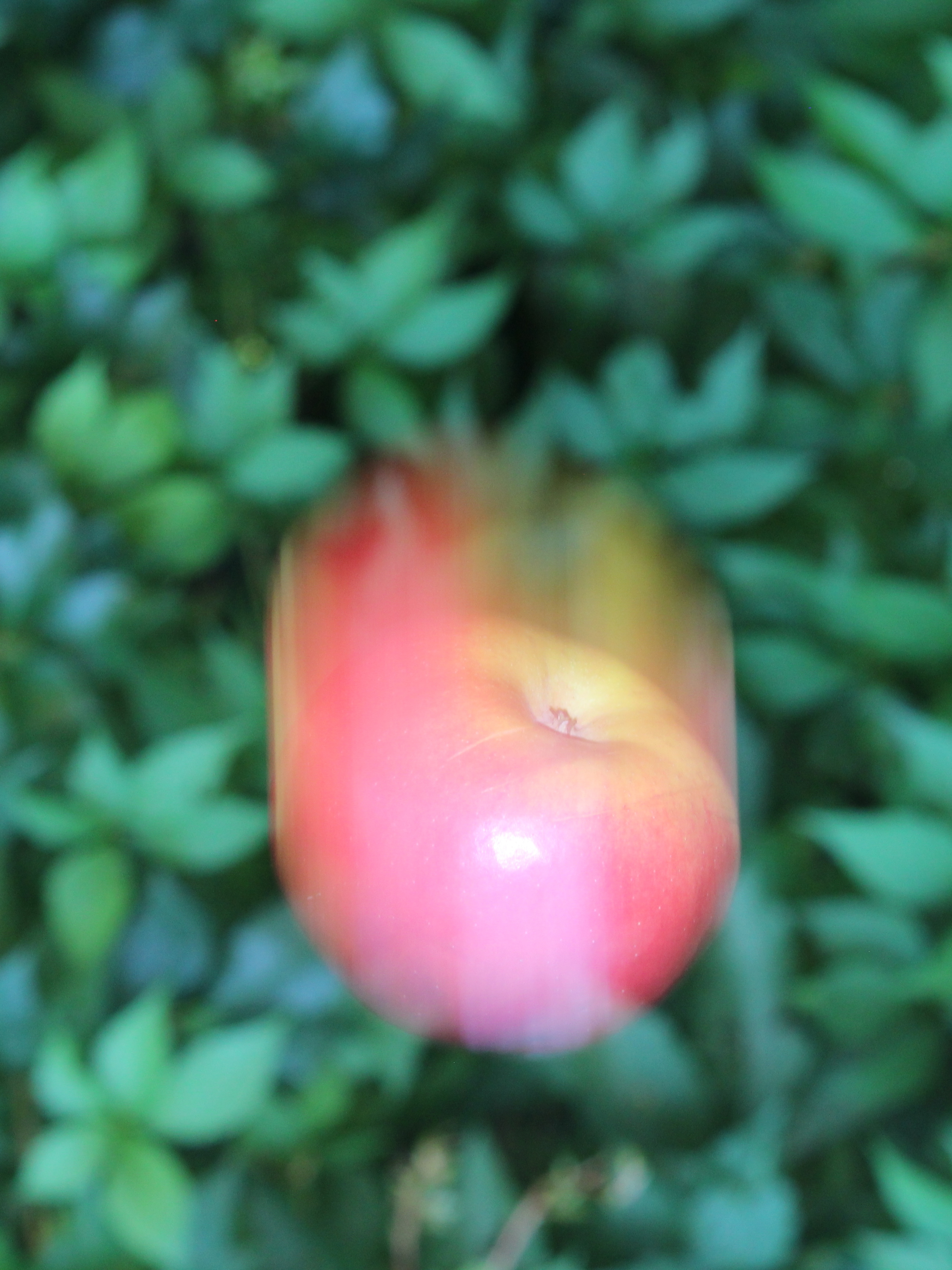 Falling apple